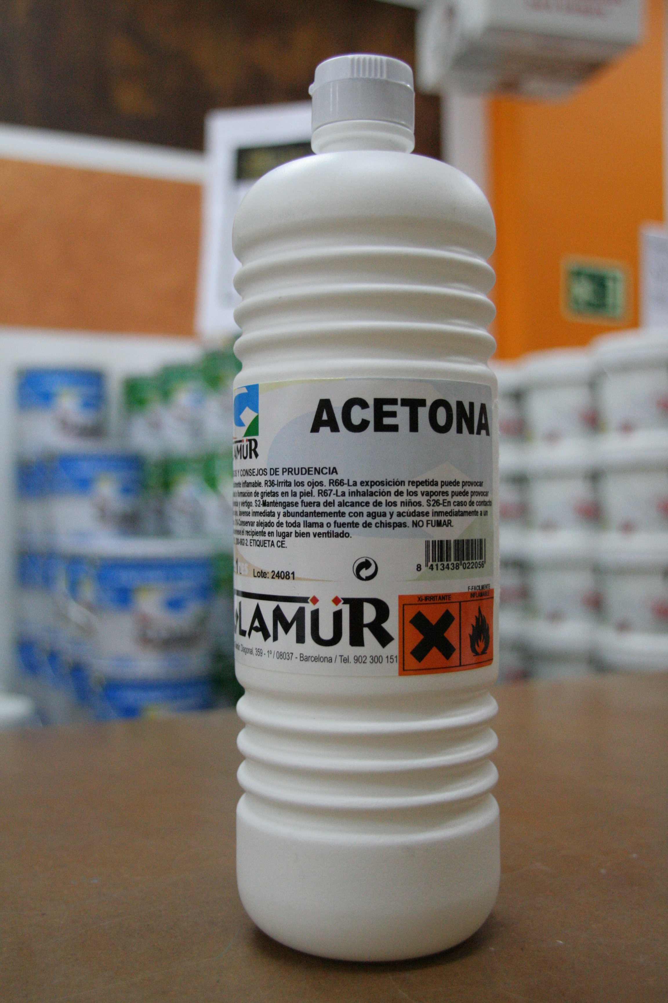 acetone